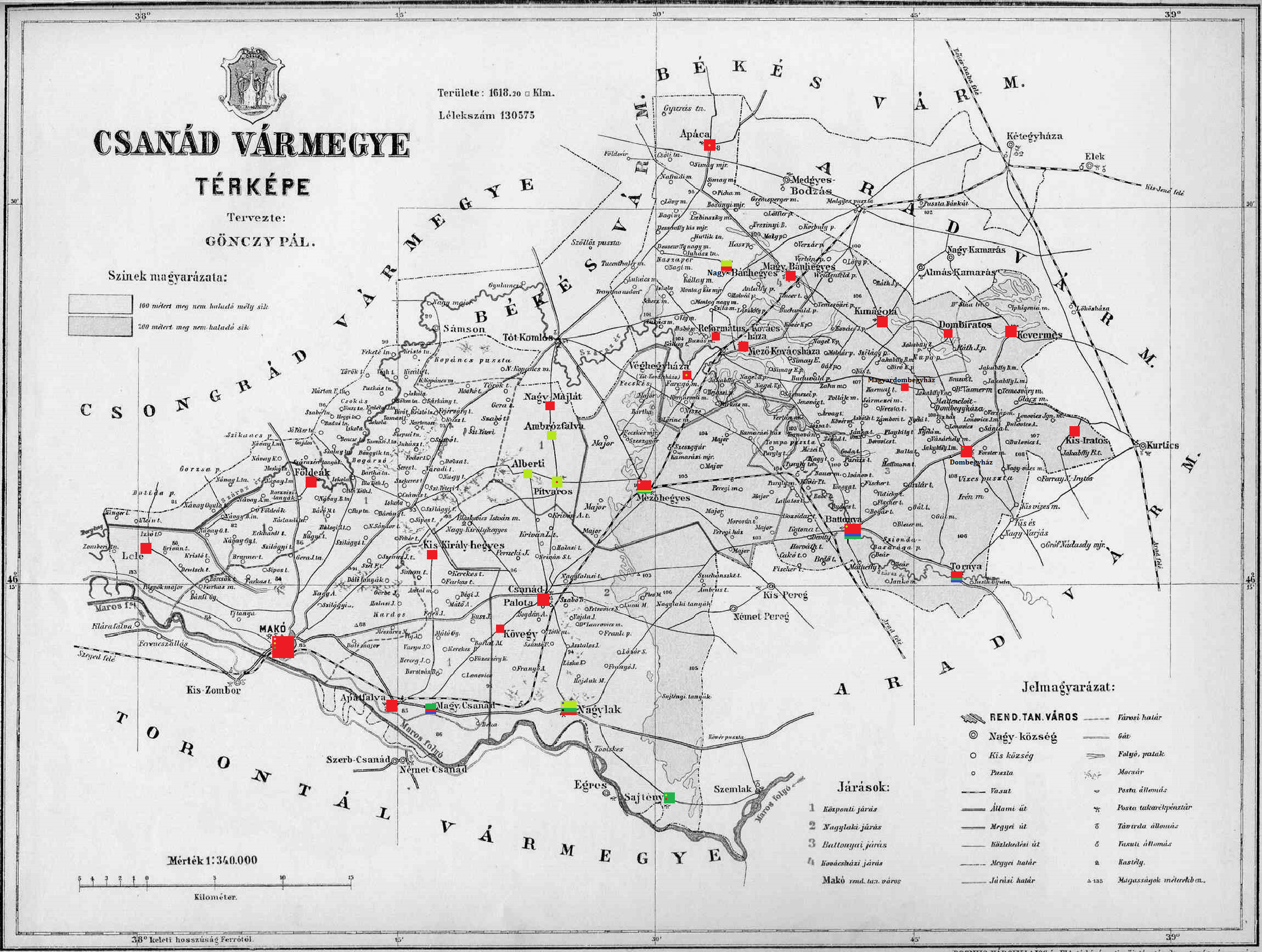 Ethnic map of the county (with data of the 1910 census). Key: red - Hungarians; light green - Slovaks; dark green - Romanians; dark blue - Serbs; pink - Germans; black - Roma. Coloured dots in plain rectangles imply the presence of smaller minority populations (generally more than 100 people or 10%). Multicoloured rectangles imply cities and villages with multi-ethnic populations with the order of the stripes following the ethnic composition of the settlement.